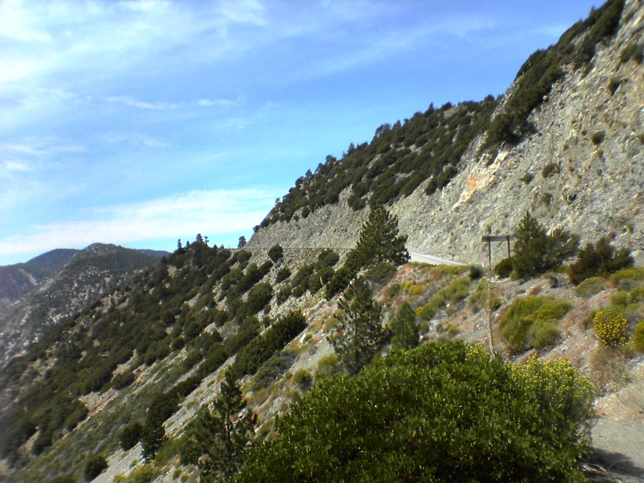 The Angeles Crest Highway that runs through the Angeles National Forest. Camera used was a Sony Ericsson S710a.